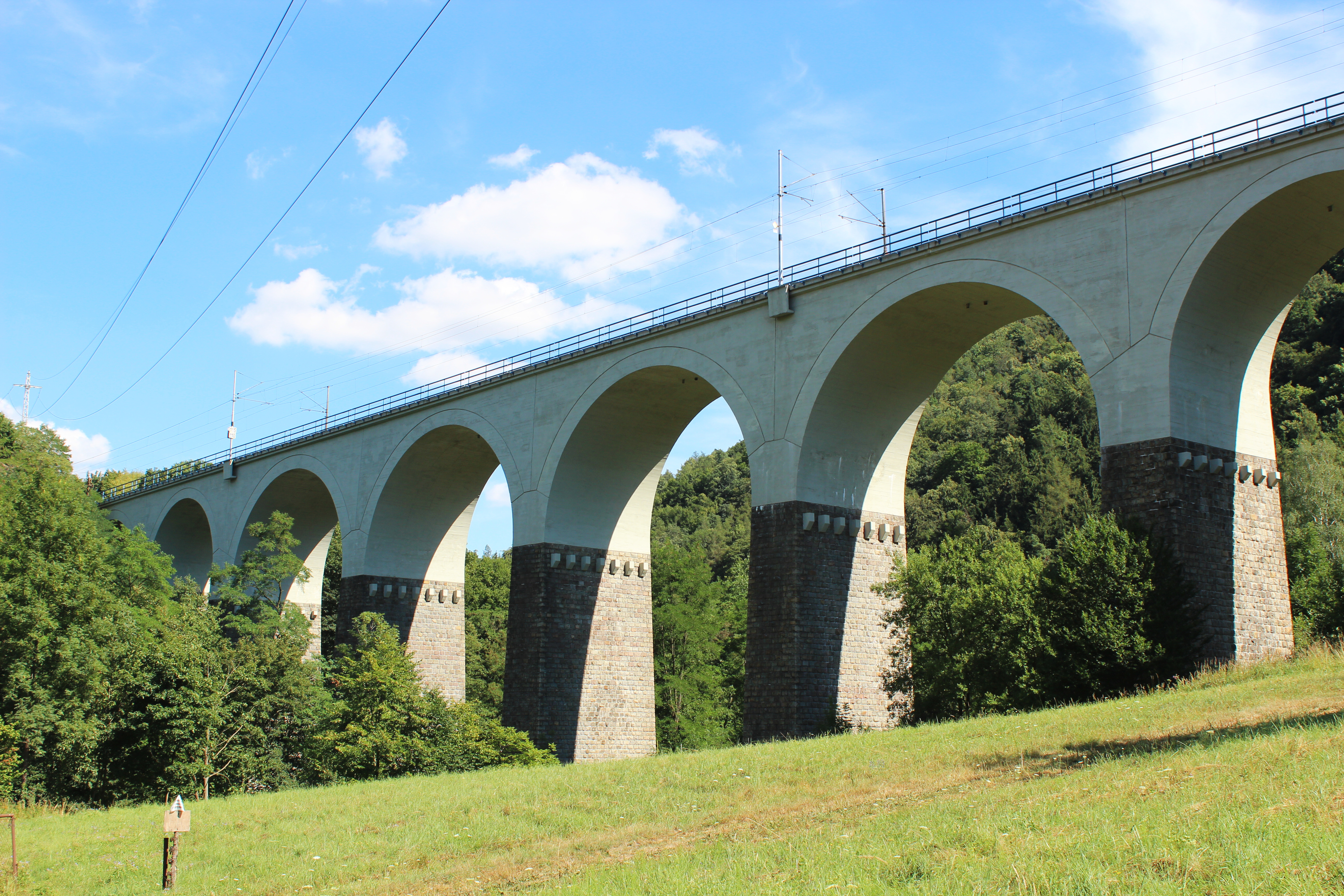 Railway bridge in Mezihoří, Dolní Loučky, Brno-Country District, Czech Republic - Google Maps - Google Earth This photograph was taken with a DSLR from WMCZ's Camera grant.